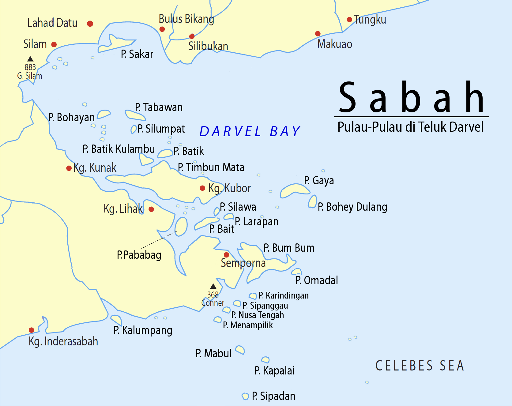 Sabah: Scheme of Islands in the Darvel Bay